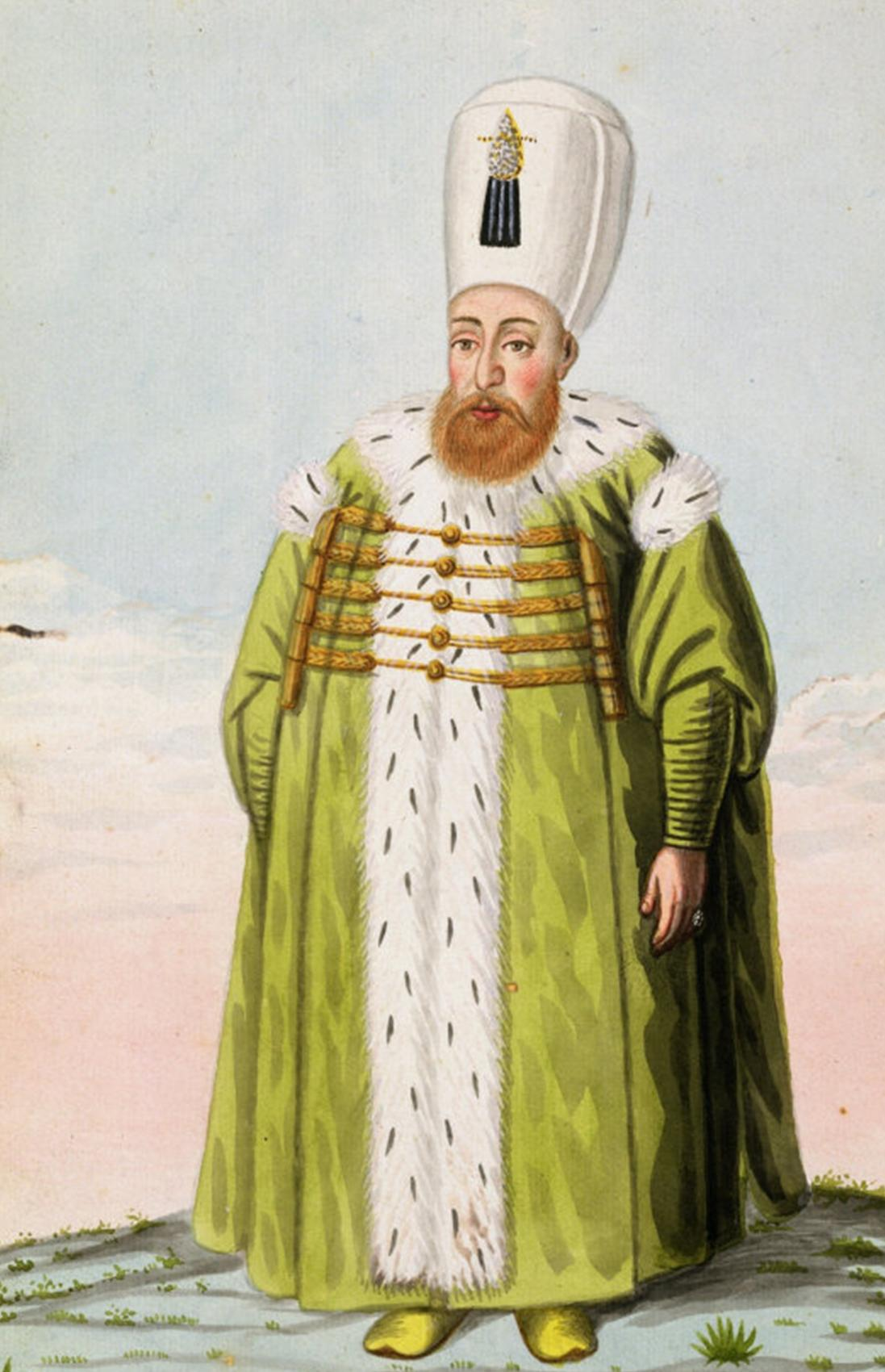 Portrait of Mustafa I, Sultan of the Ottoman Empire (1617-1618; 1622-1623). The portrait has been printed using the Giclée process.